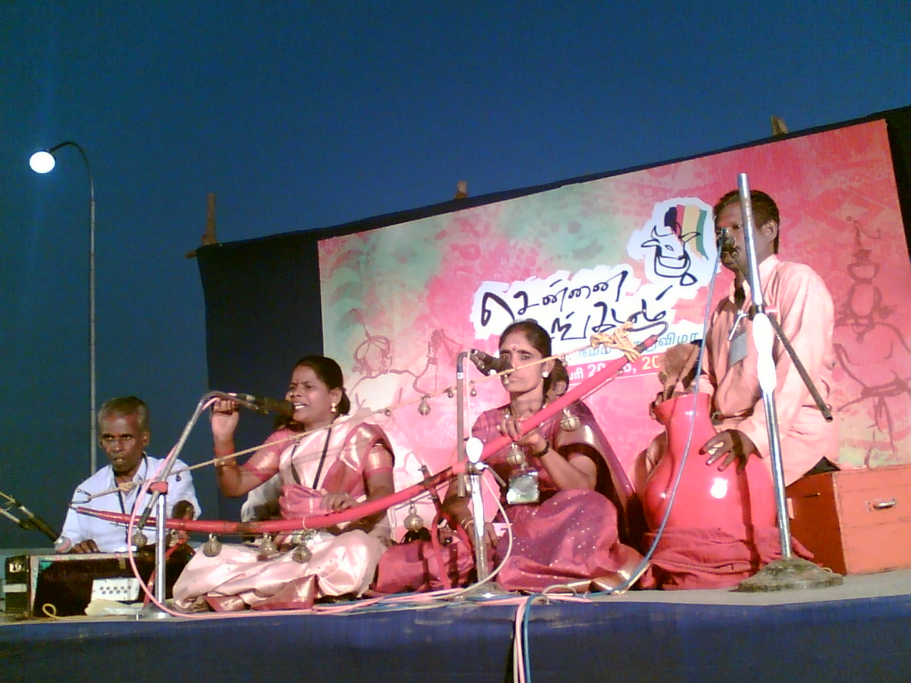 Telling the Ramayana at the Tamil cultural festival Sangamam in Chennai. Original caption: Rama killing demons, narrated like it is done during village festivals.Sangamam: Story telling - Ramayana